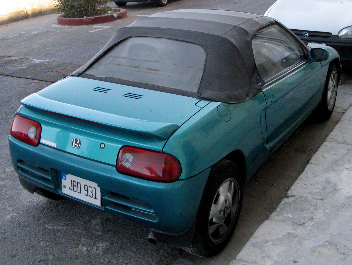 Honda Beat in Valletta, Malta